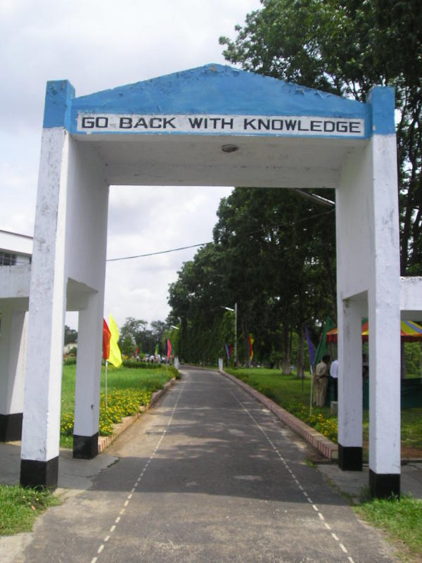 Captured by my friend